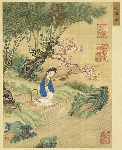 This painting depicts Xi Shi (西施). Each of the twelve leaves in this album has a title and depicts such famous beauties in Chinese history as Xi Shi, Qin Luofu, Qin Longyu, Madame Li of the Han, Zhuo Wenjun, Cai Wenji, Wu Liju, Princess Shouyang, Mulan, Madame Gongsun, Hongxian, and Lady Hongfu. The painter is identified as He Dazi, perhaps a Painting Academy artist whose style followed Jiang Bingzhen’s ladies, but whose birth and death dates are unknown. The left leaves have transcriptions of lines of ancient poetry by the court official Liang Shizheng from 1738 related directly or indirectly to events of the ladies depicted in the paintings. Though the works follow in the style of court lady painting, the lines of verse reveal different facets in praise of feminine virtues.